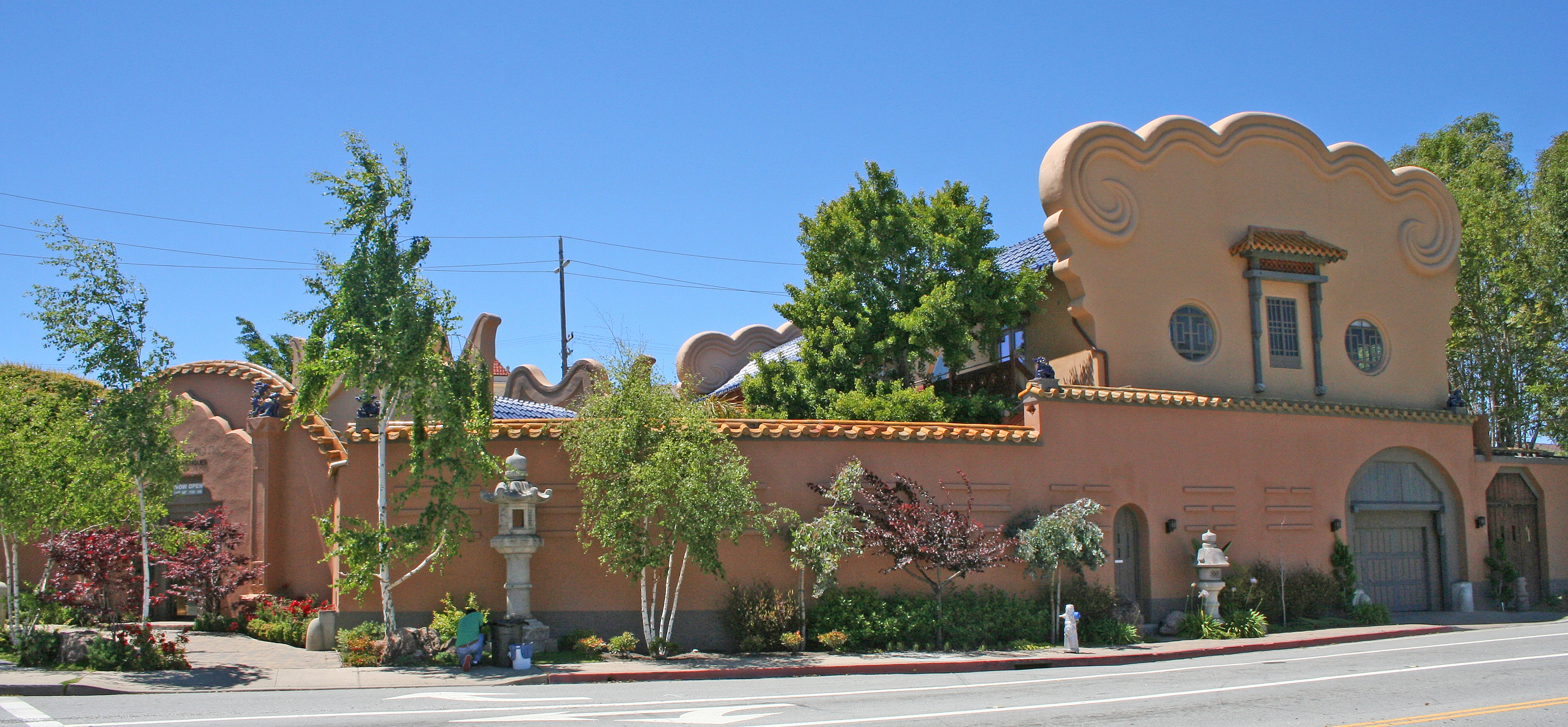 G. T. Marsh and Sons, located at 599 Fremont Street in Monterey, California. Ths building is also known as Marsh's Oriental Art Store.